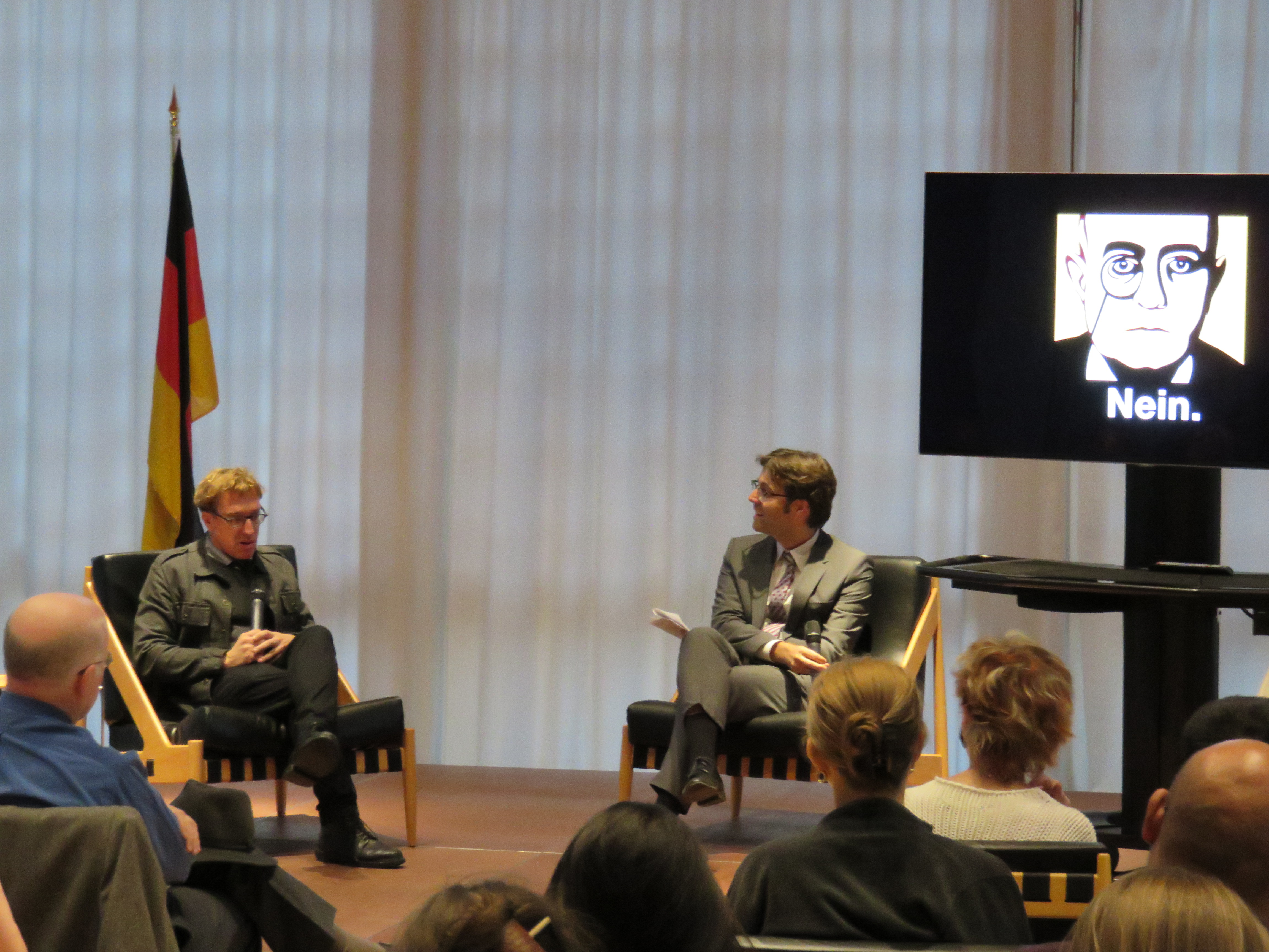 Eric Jarosinski discusses his twitter personae and book, Nein. A Manifesto, at the German Embassy in Washington D.C., 8 October 2015